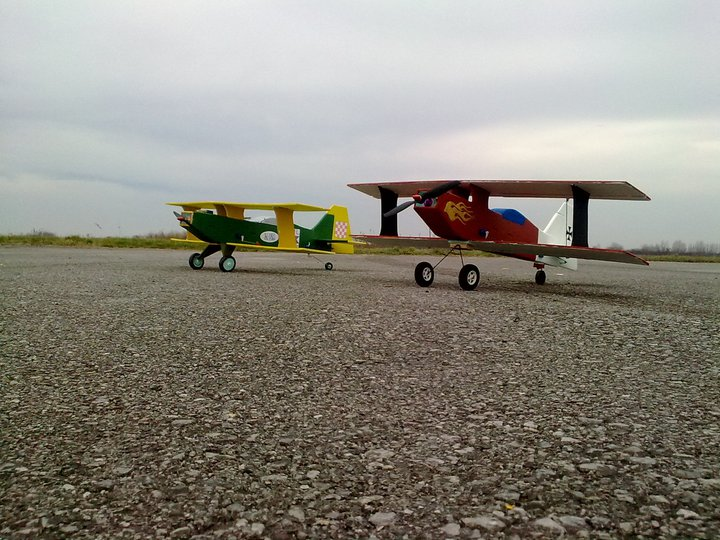 Radio controlled model aircraft at the sporting airport Čepin, Croatia.